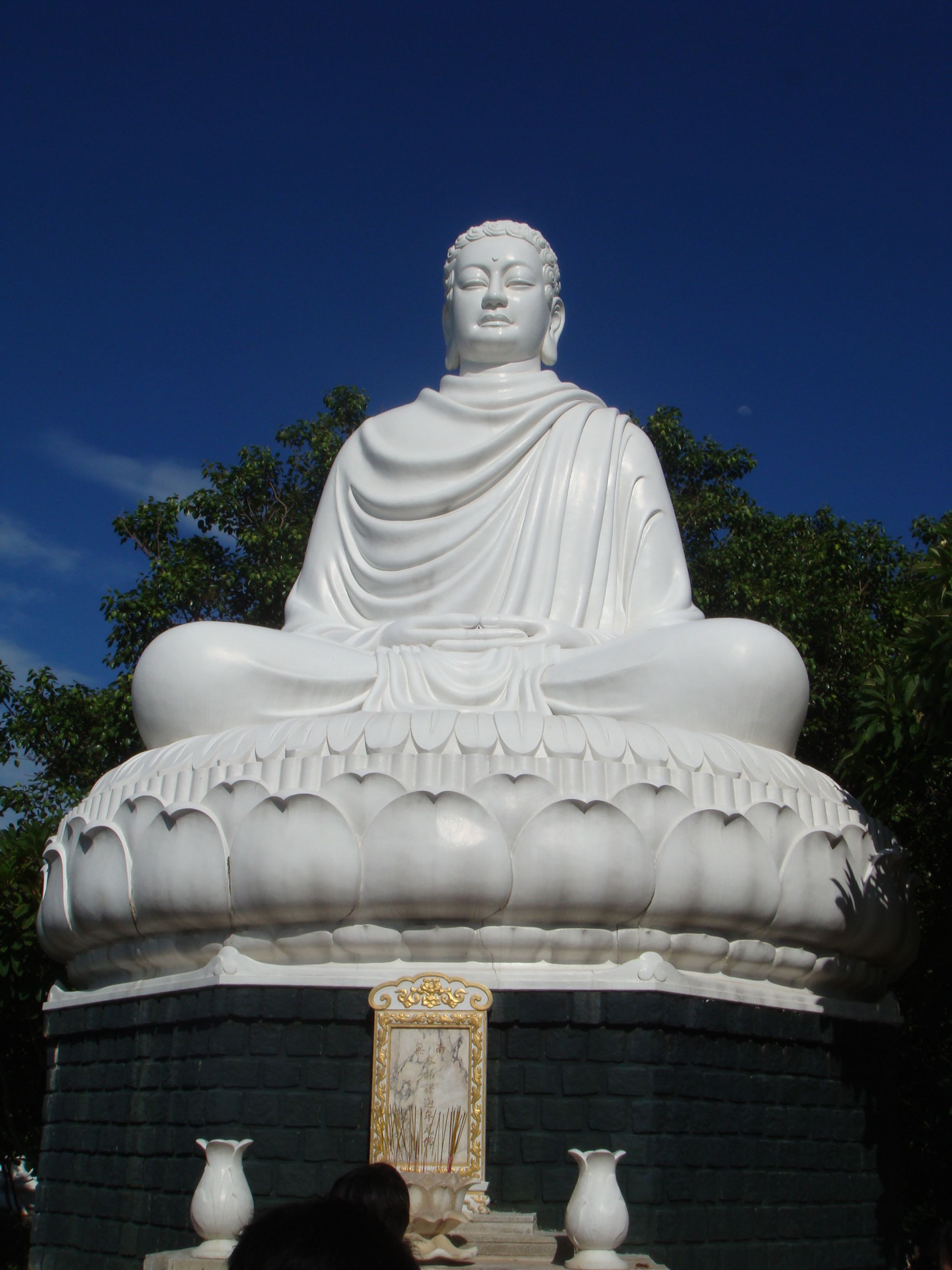 The buddha in Thich Ca Phat Dai pagoda in Vung Tau